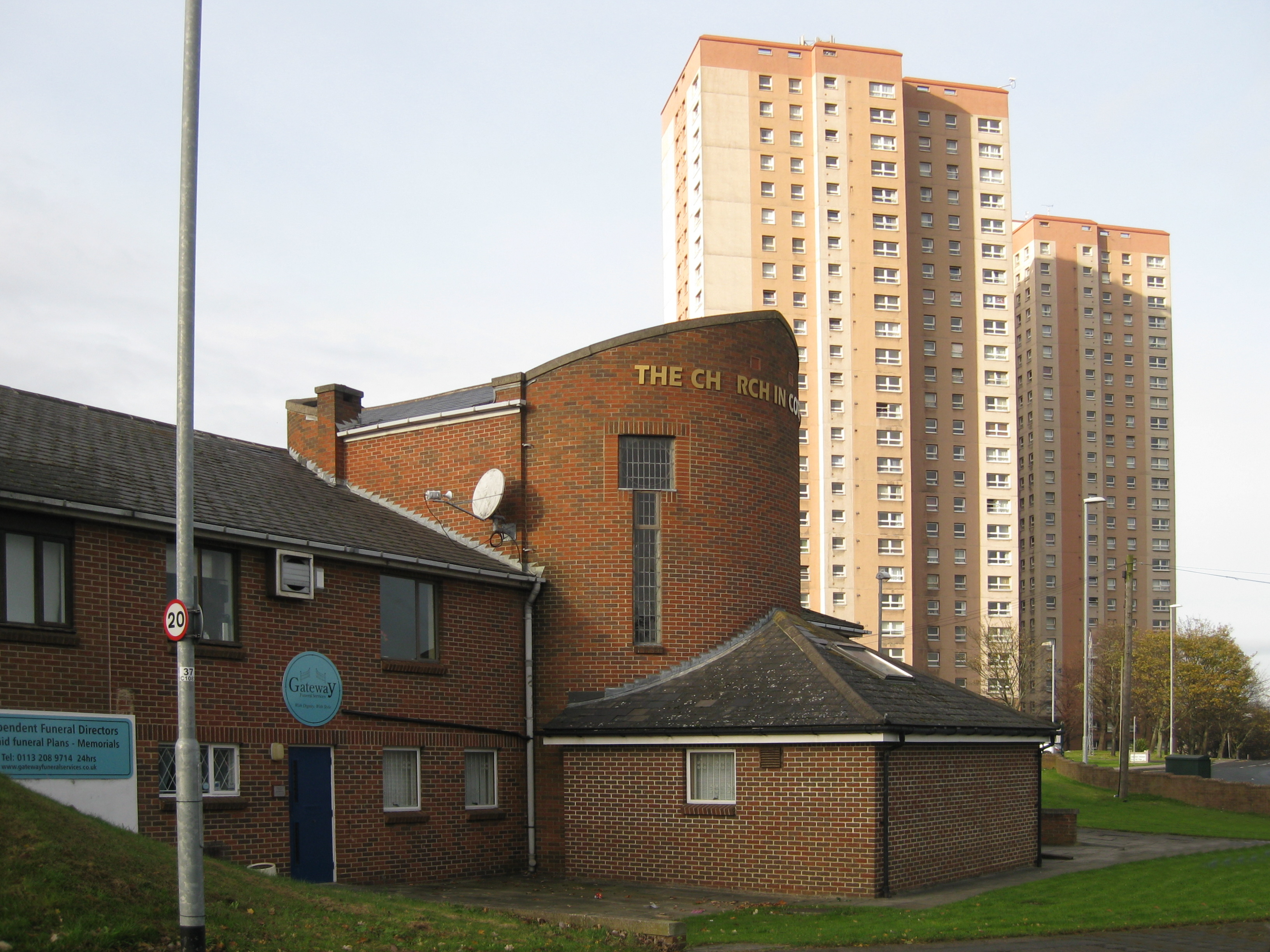 Cottingley Towers (distance), Church in Cottingley (centre), Gateway Funeral Services (left). Viewed from Cottingley Approach, Leeds LS11. Lamp standard with 20 mph limit.